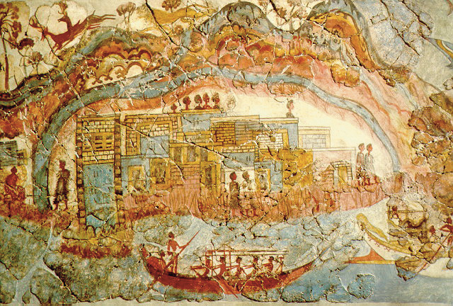 Bronze age 'Flotilla' fresco from room 5, in the west house at the Minoan town of Akrotiri, Santorini, Greece